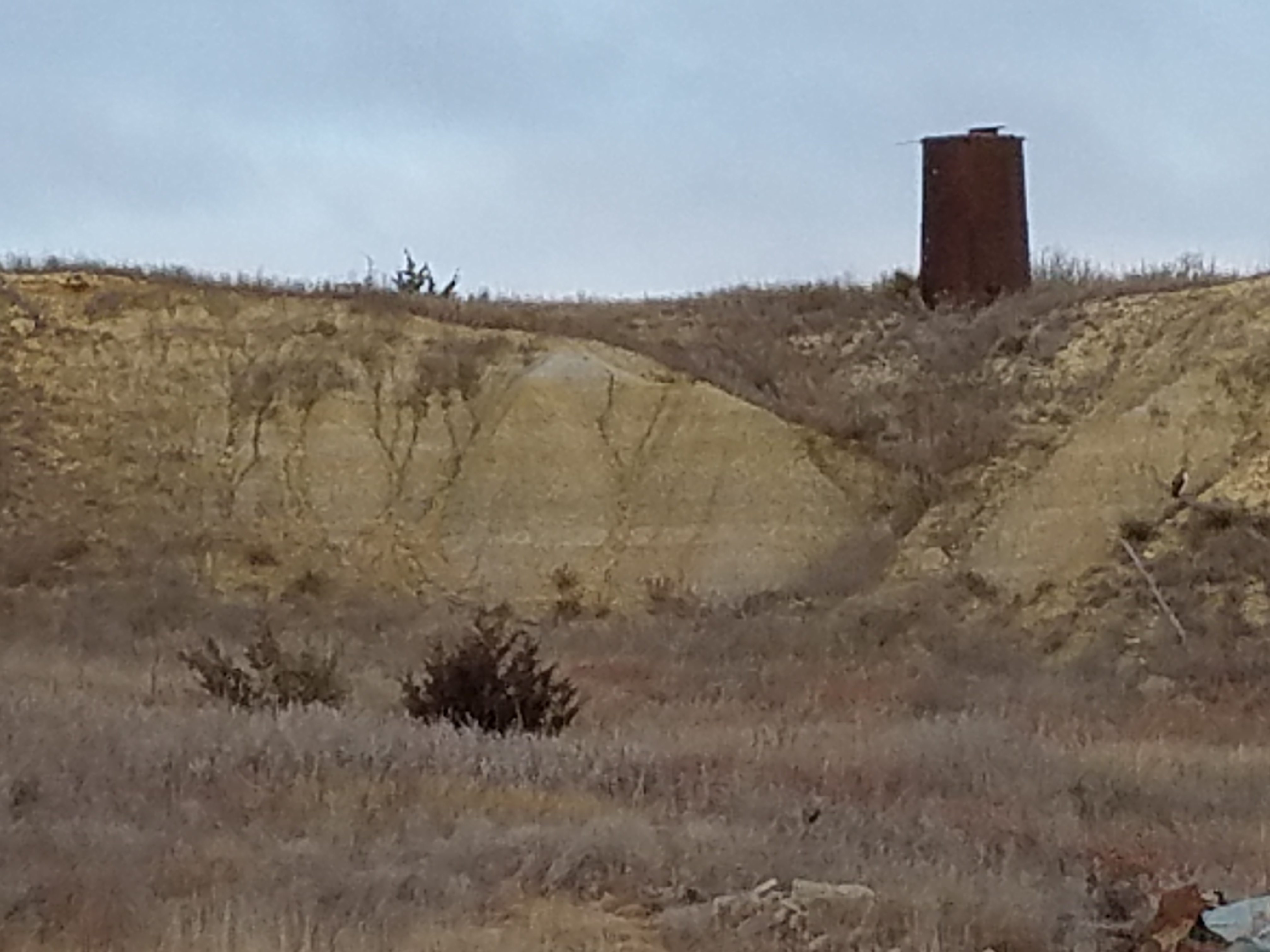 Yocemento, quarry faced of Blue Hill Shale